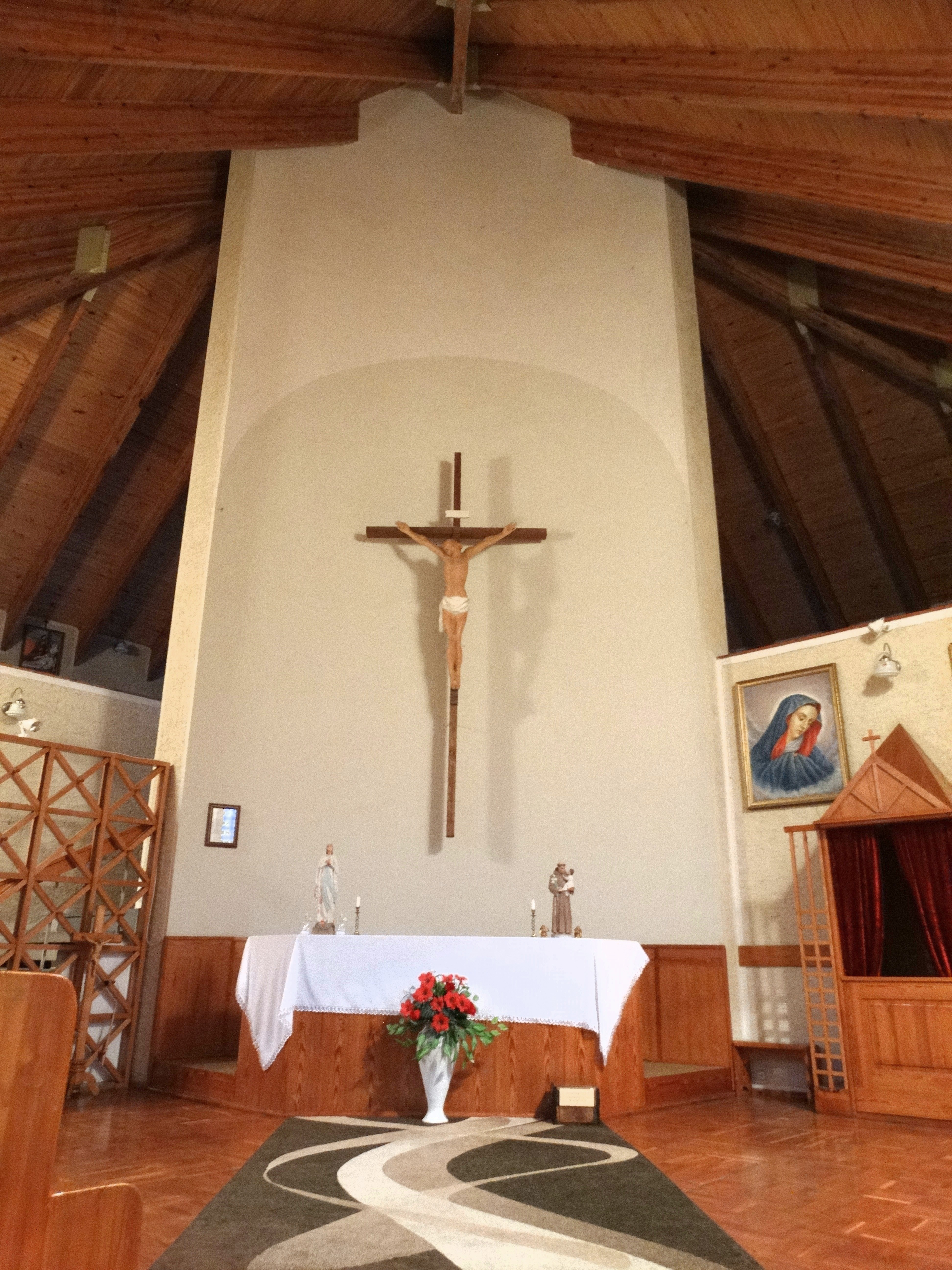 Catholic chapel, Juknaičiai, Šilutė district, Lithuania